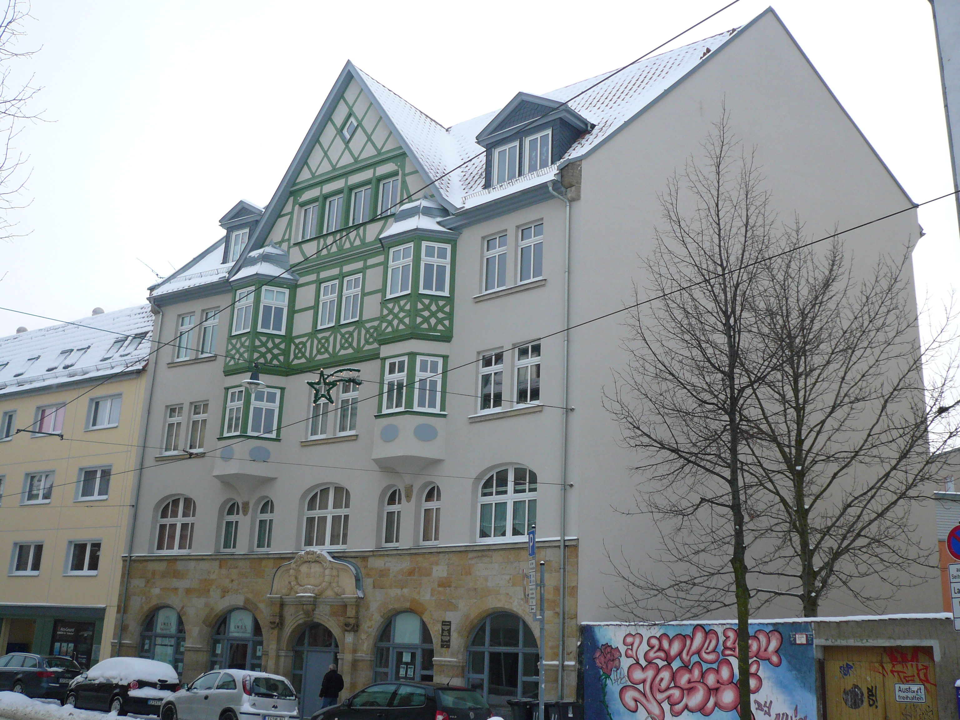 The house "Zum Regenbogen" in Erfurt, Germany